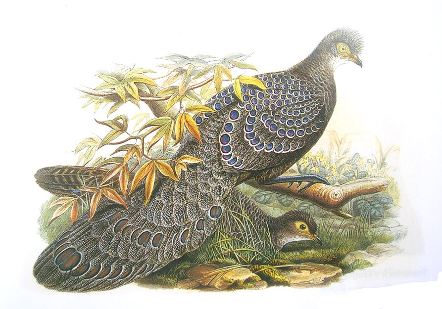 Peacock Pheasant, Polyplectron bicalcaratum